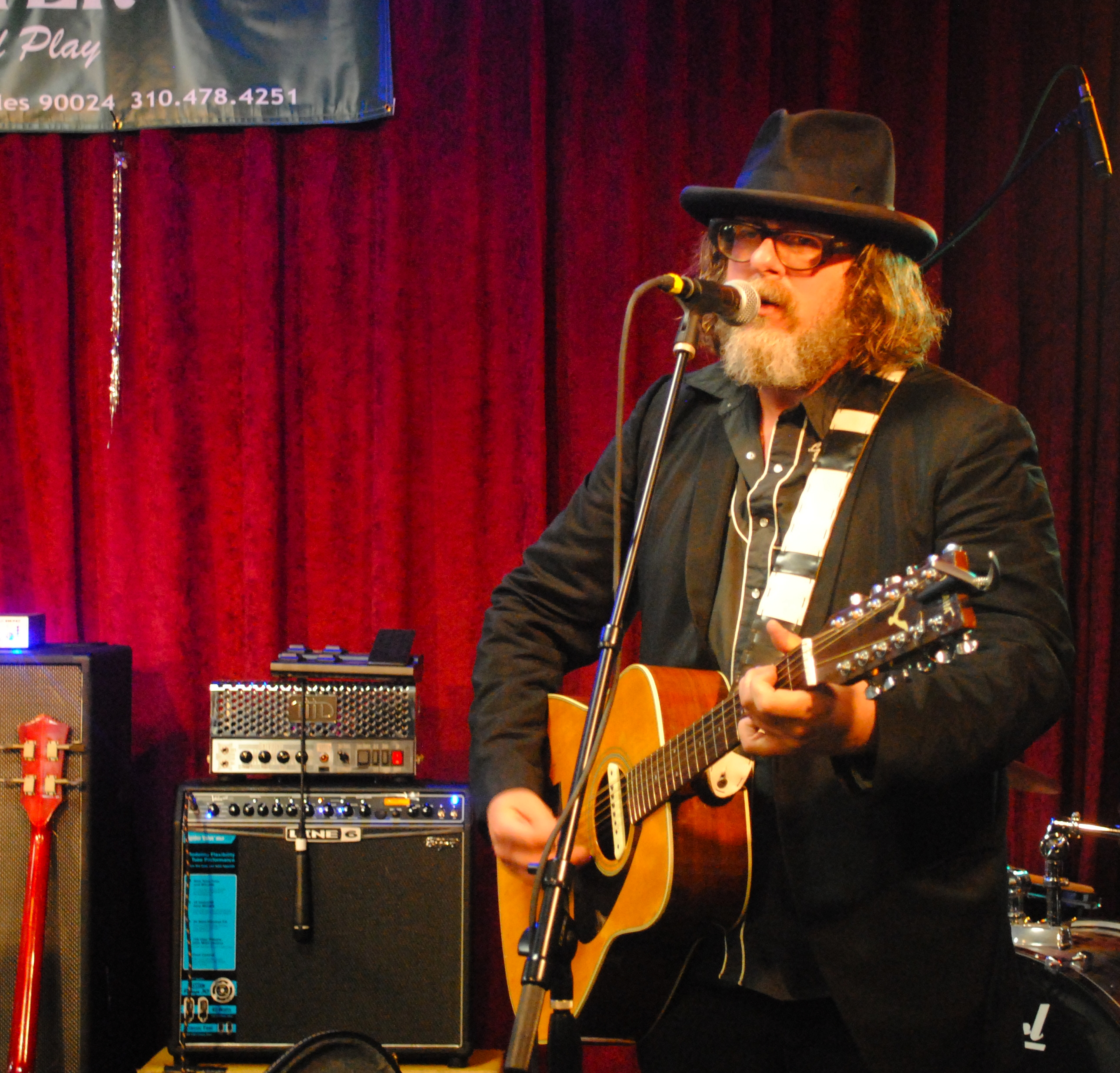 Zander Schloss performing on May 24, 2010